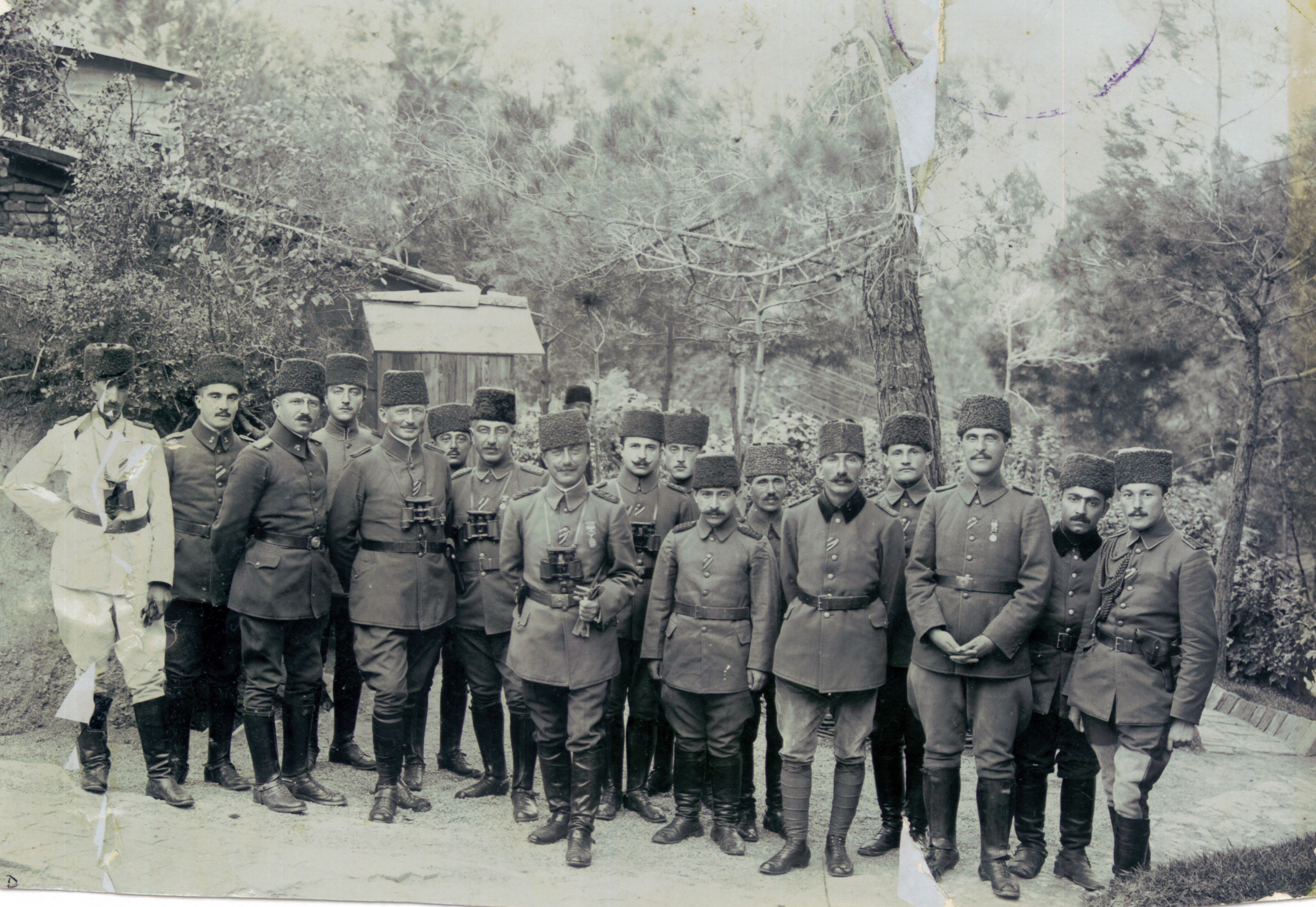 Commander of the Dardanelles Fortified Area Command Miralay Djevat Bey and his staff officers